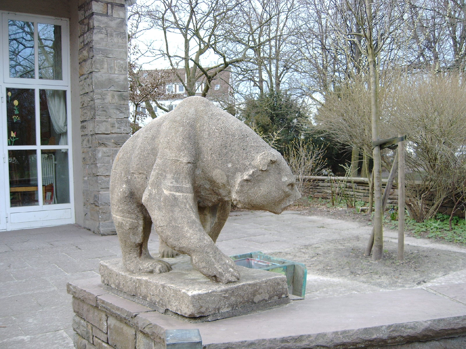 Bear Statue